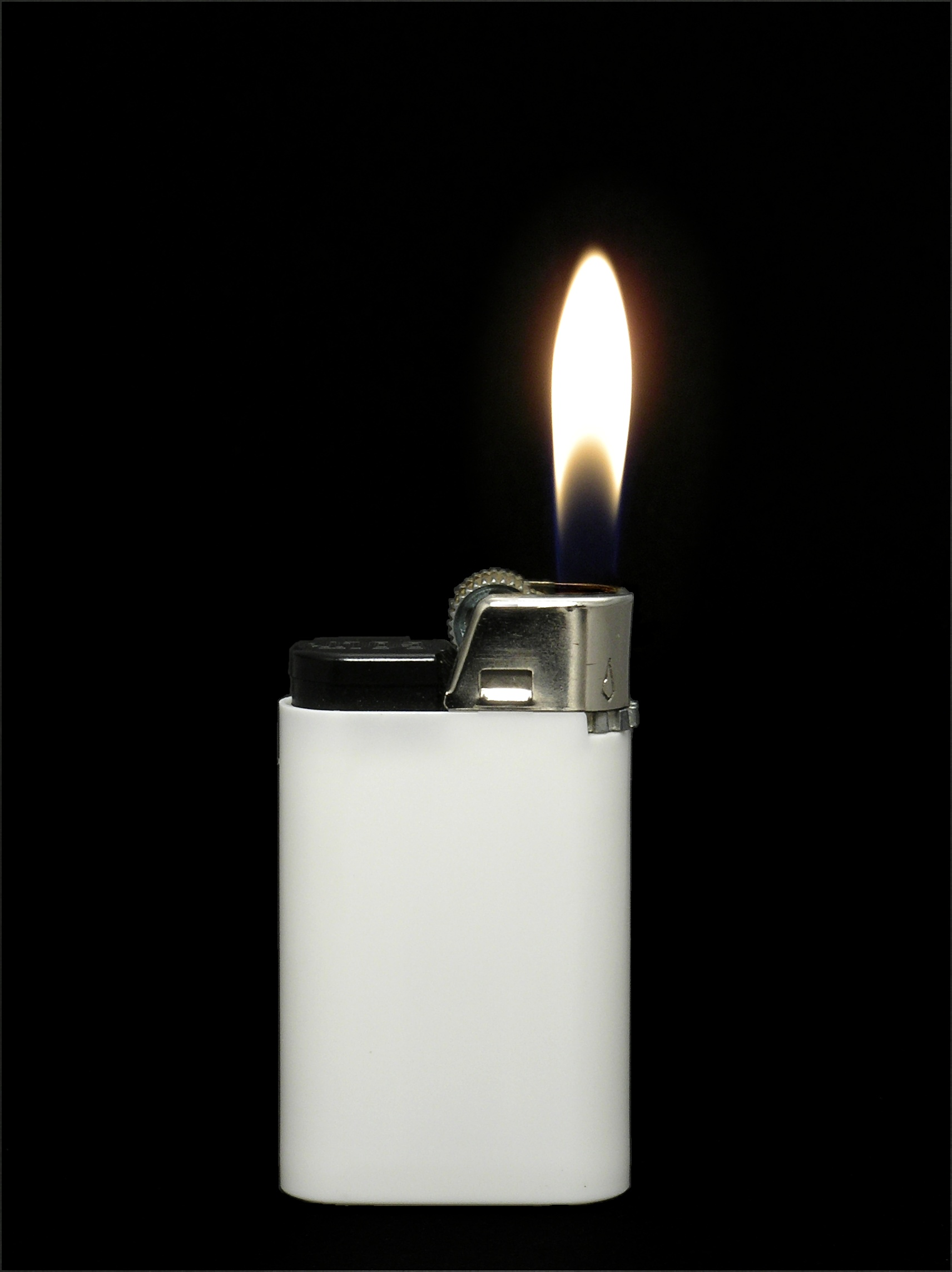 A white lighter showing a flame against a black background.